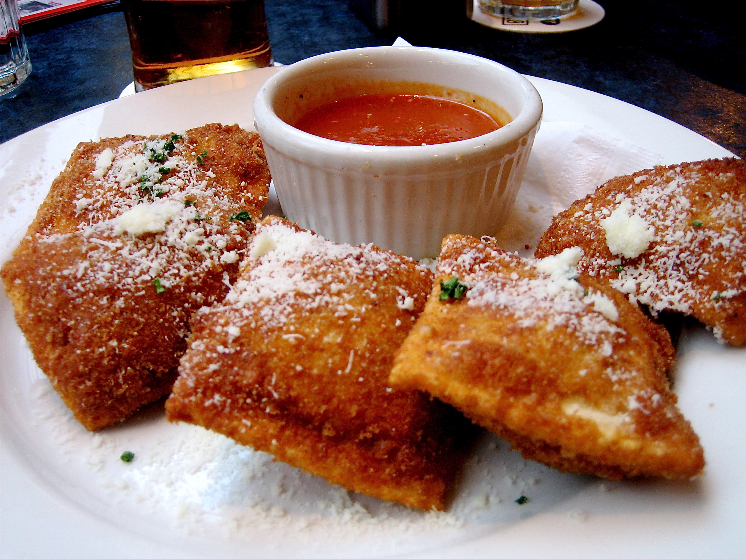 Image of toasted ravioli.